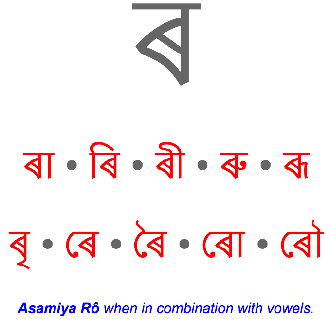 Asamiya Rô - in combination with vowels.